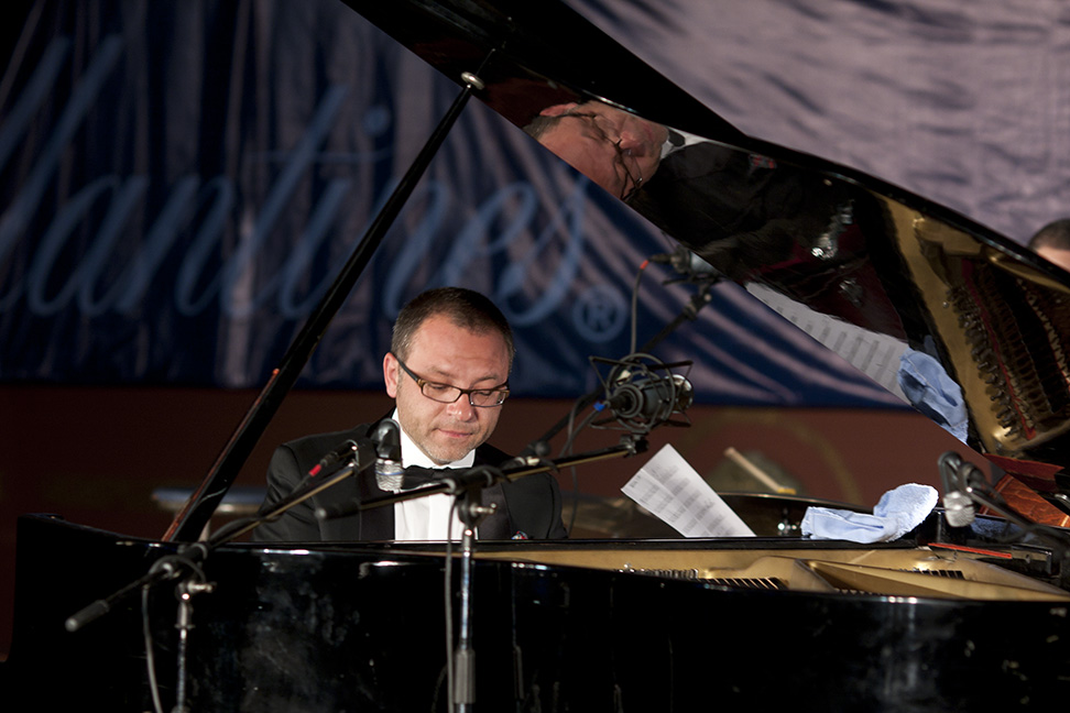 Angel Zaberski performing at Apolonia 2010 (Tribute to Oscar Peterson)concert Ангел Заберски по време на концерта в памет на Оскър Питерсън, Аполония 2010